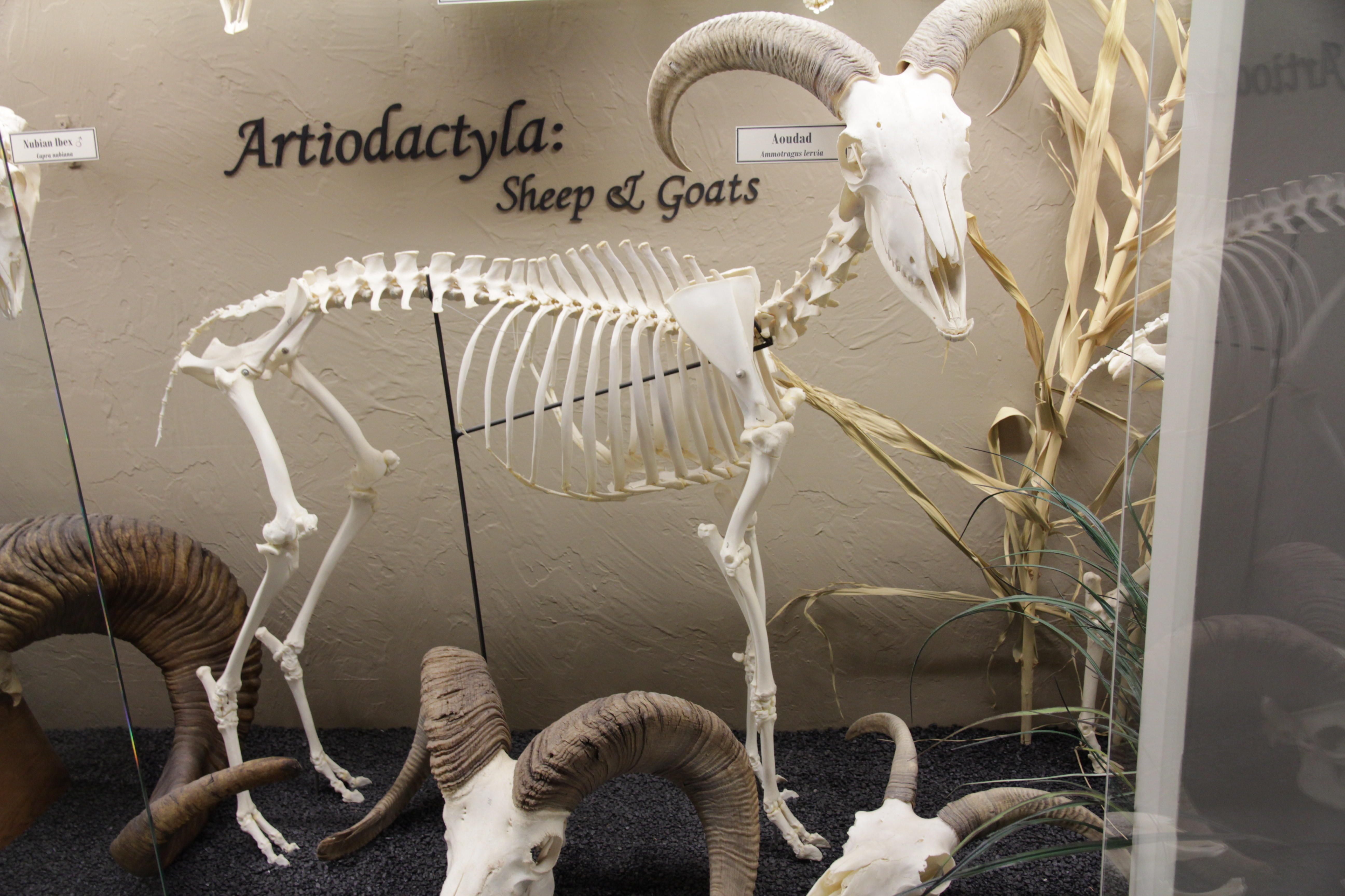 Skeleton of an Aoudad (Barbary sheep) on display at Museum of Osteology